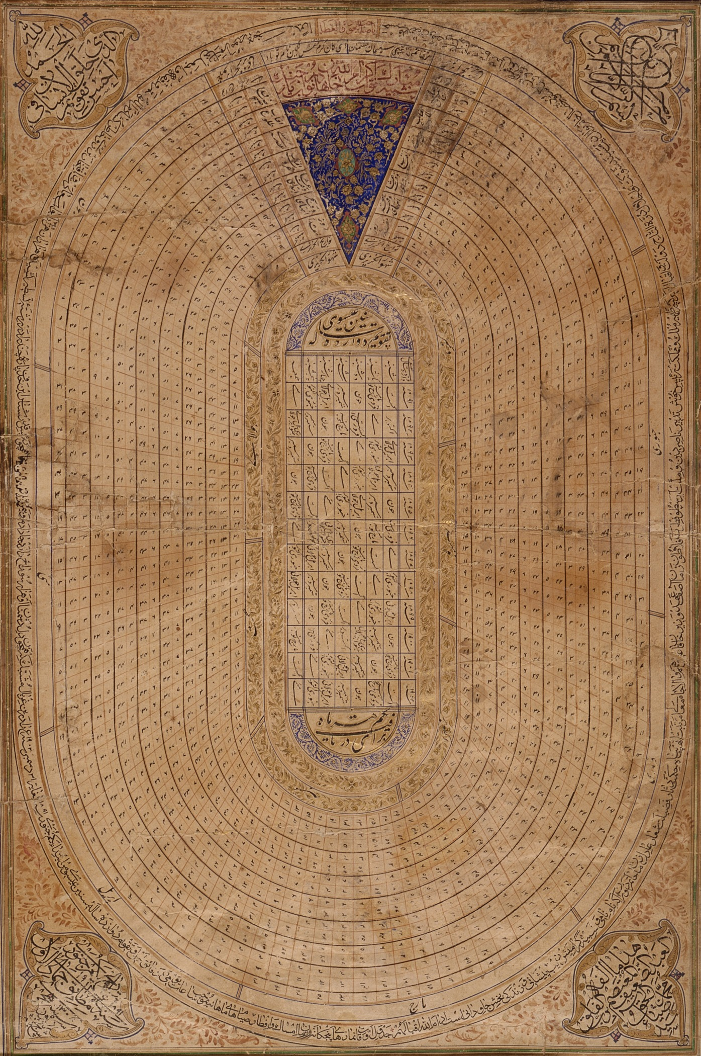 India, Deccan, 1891 Books Ink, opaque watercolor, and gold on paper Indian Art Special Purpose Fund (M.89.21) South and Southeast Asian Art